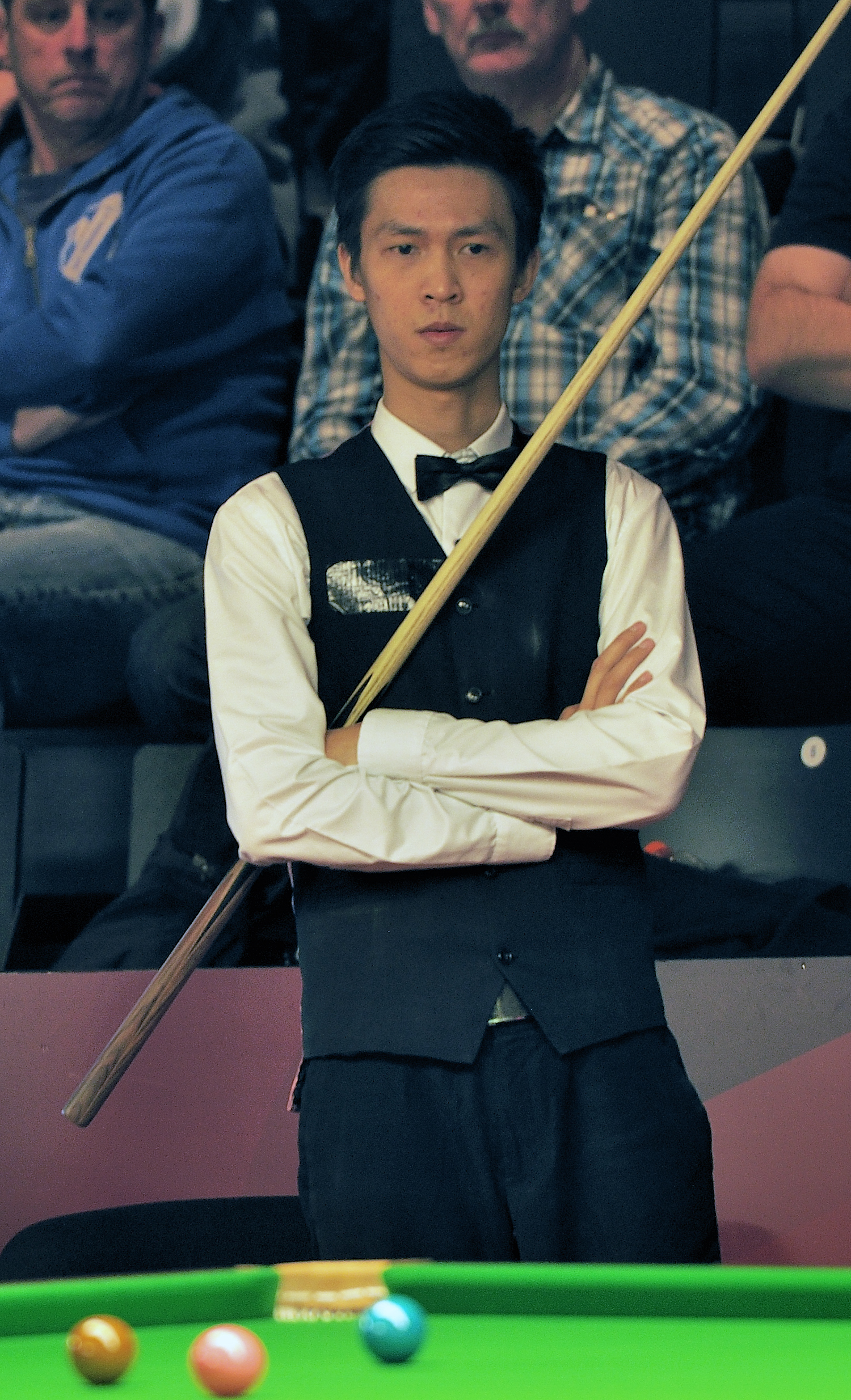 Picture taken in Berlin during the Snooker German Masters in 2014. Thepchaiya Un-Nooh.